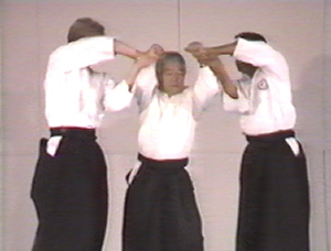 1988 photo of Ken Ota for biographical use. Photo from Porfirio Landeros. Photo (c) Porfirio Landeros, Kwixite Media[1].